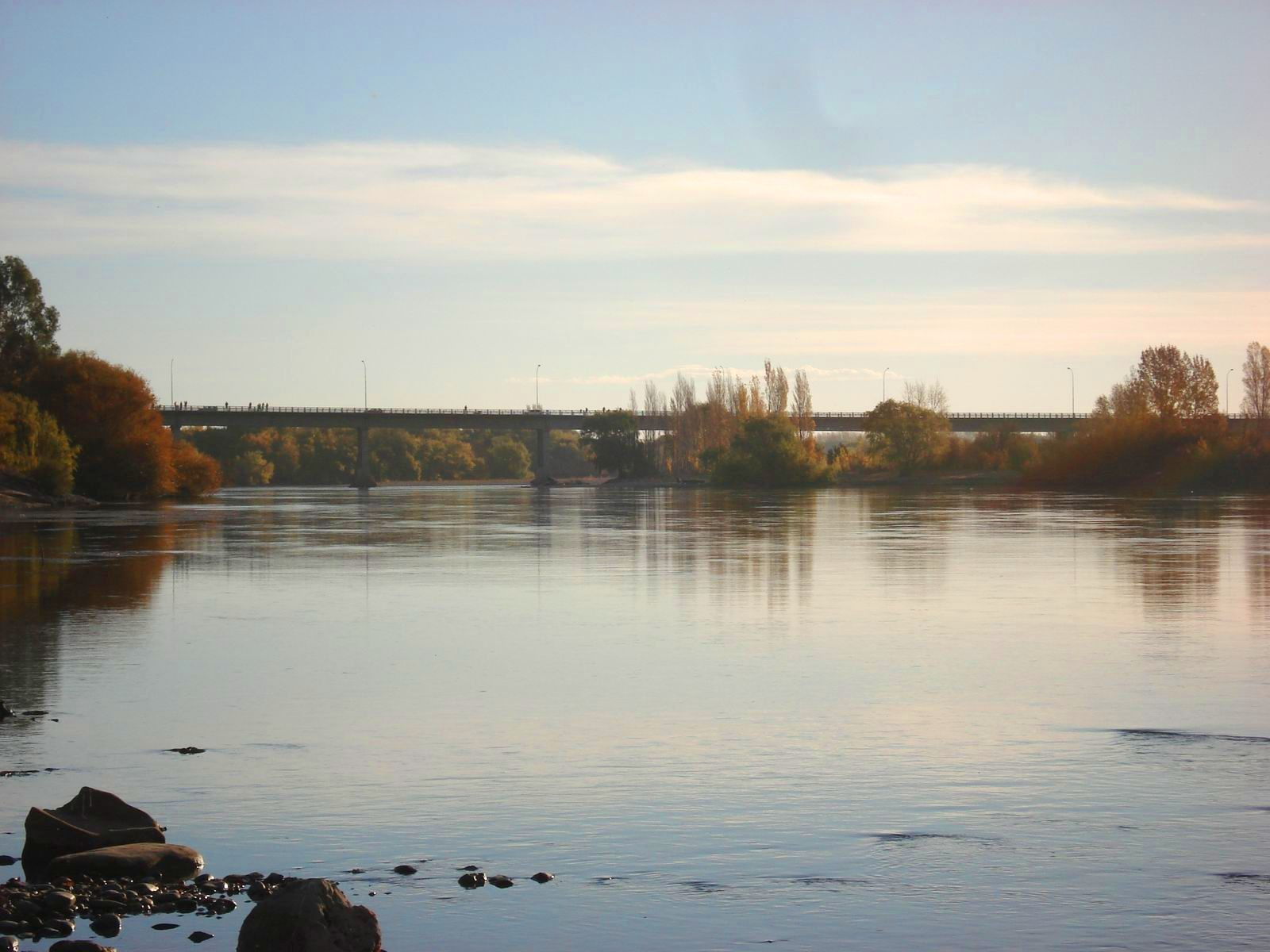 Negro river near General Roca, Argentina.